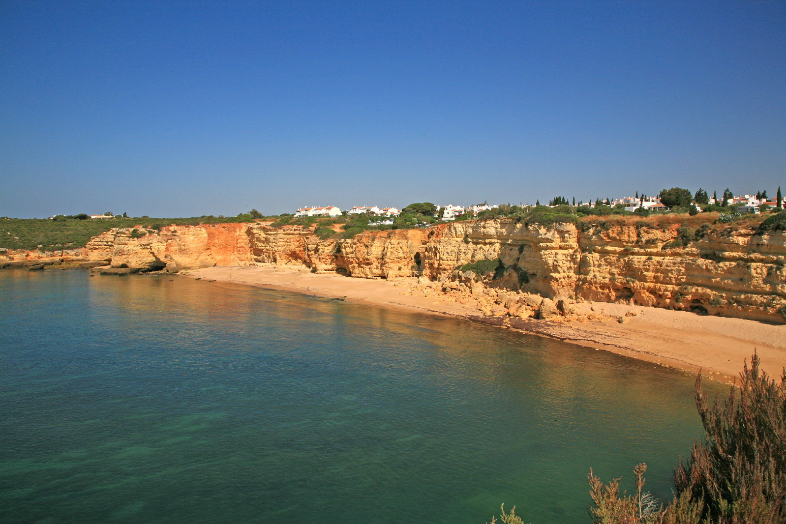 Algarve Portugal February 2015